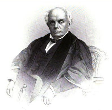 Pruyn with academic cap and gown. He received an honorary Doctor of Laws degree from the University of Rochester in 1852. He was a member of the Board of Regents of the University of the State of New York for 33 years, and Chancellor of the board from 1862 until his death.